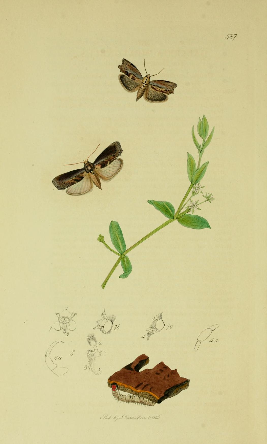 An illustration from British Entomology by John Curtis. Lepidoptera: Galleria mellonella (Honeycombe Moth).